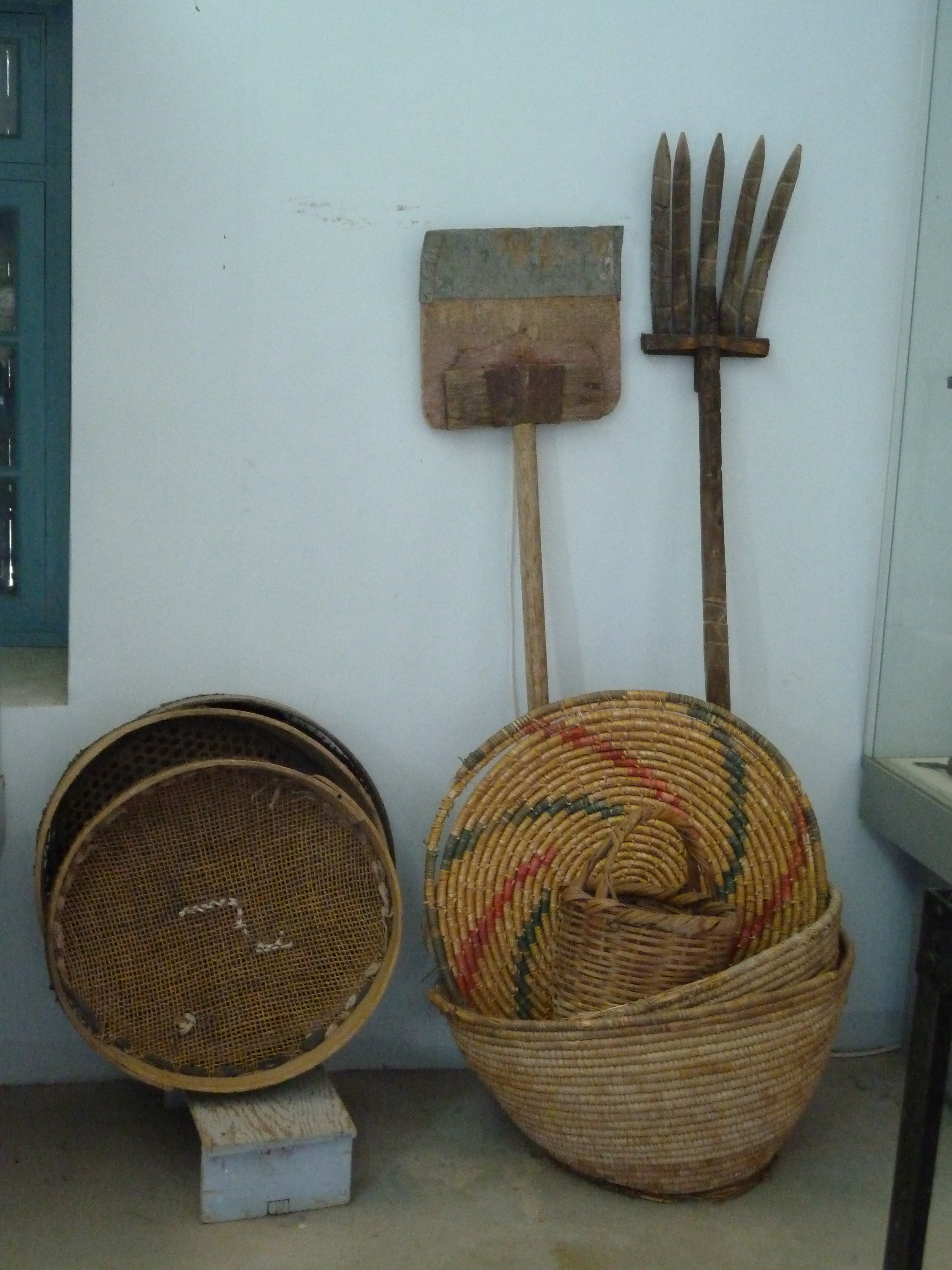 Exhibits at the Circassian Heritage Center in Kfar-Kama, Kfar Kama, the Lower Galilee, Israel This image was taken as part of the Elef Millim project trip to the Circassian town of Kfar Kama in the Lower Galilee, which was held on Friday, 22nd June 2012. To view all images uploaded as part of the Elef Millim Project